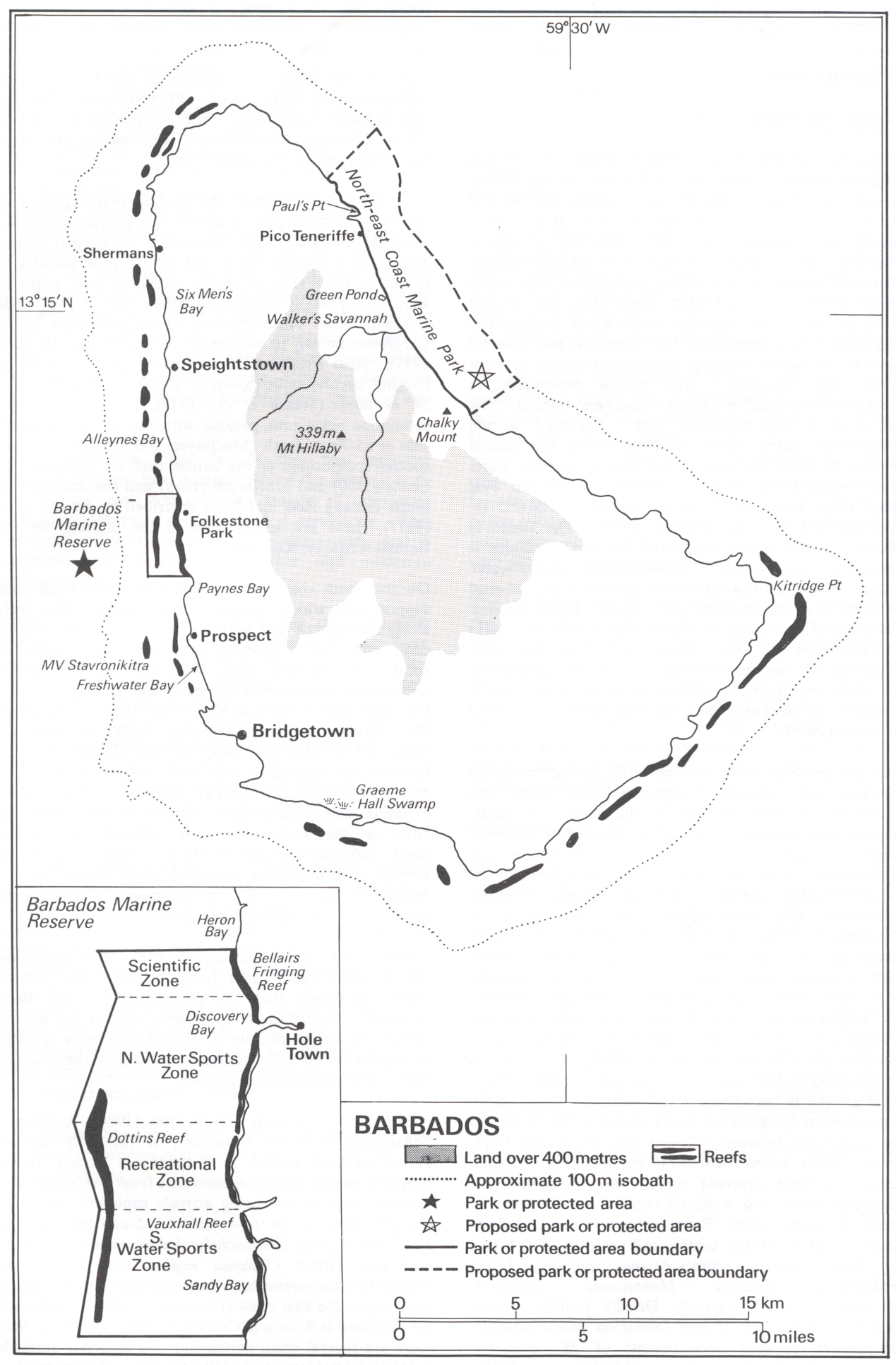 Coral reefs around Barbados.